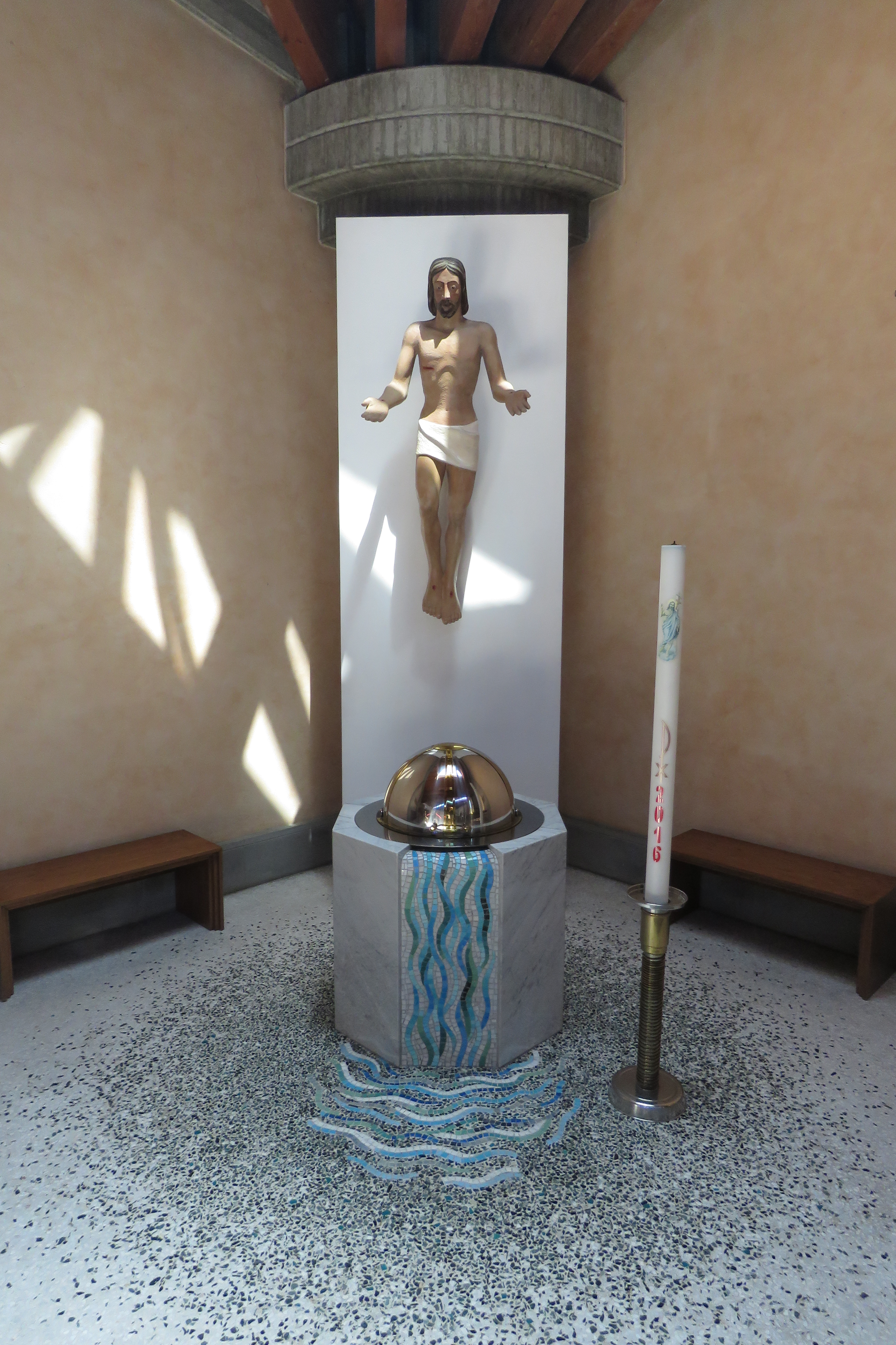 Baptistery with the Resurrected repainted